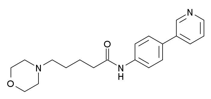 i drew this anyone can use it